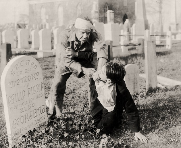 Frank Losee (left) and Jack Pickford in Great Expectations (1917) - publicity still